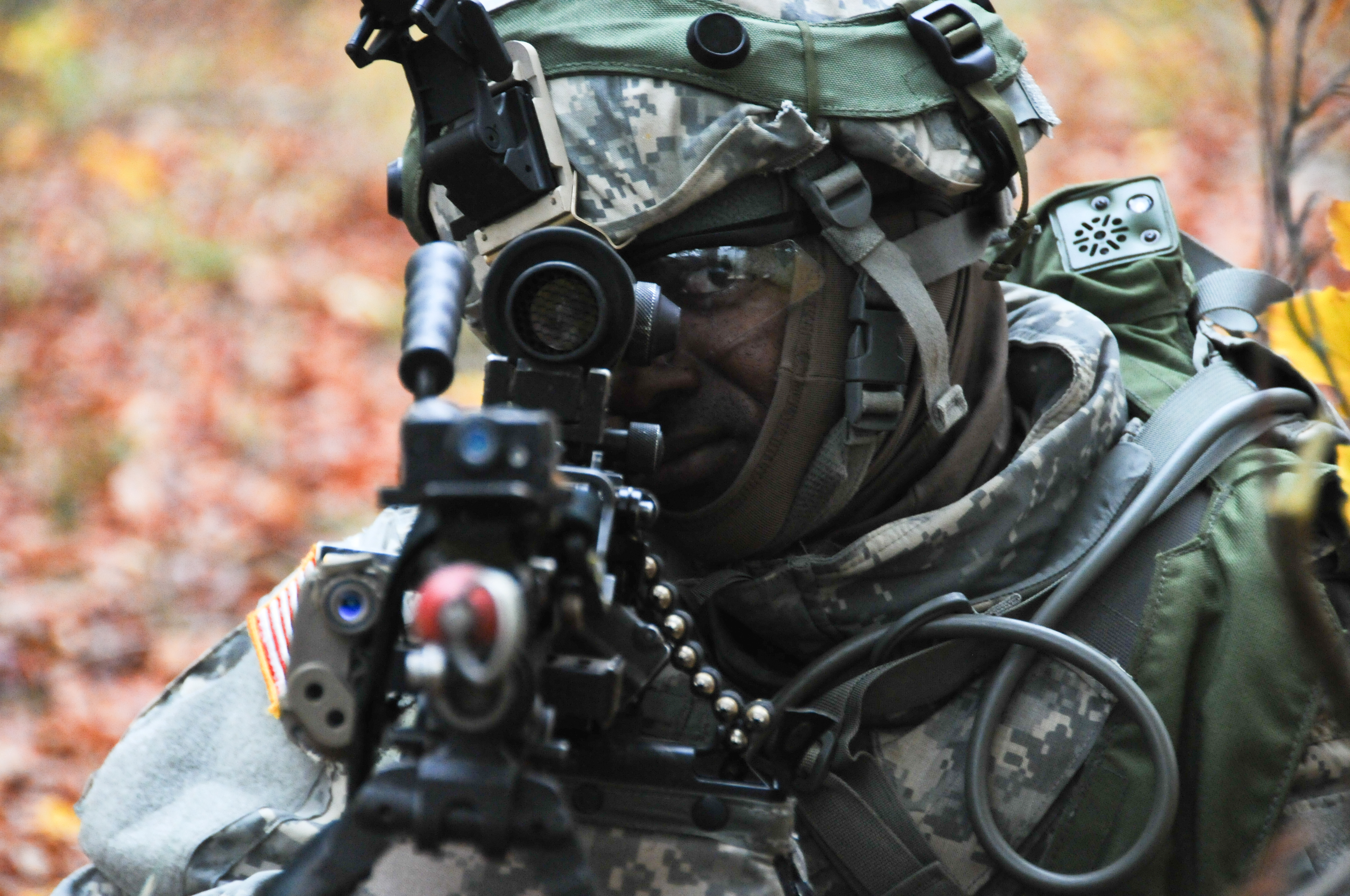 U.S. Army Pvt. Gabriel Alexander, Iron Troop, 3rd Squadron, 2nd Cavalry Regiment, aims his M249 light machine gun during a decisive action training environment exercise, Saber Junction 2012, at the Joint Multinational Readiness Center in Hohenfels, Germany, Oct. 24, 2012. Saber Junction 2012, the U.S. Army Europe's premier training event, is a large-scale, joint, multinational, military exercise involving thousands of personnel from 19 different nations and hundreds of military aircrafts and vehicles. It is the largest exercise of its kind that U.S. Army Europe has conducted in more than 20 years. VIPER COMBAT CAMERA USAREUR Photo by Sgt. Nicholaus Williams Date Taken:10.24.2012 Location:HOHENFELS, BY, DE Read more